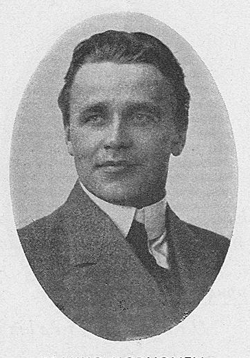 Finnish actor Jaakko Korhonen, early 1930s.